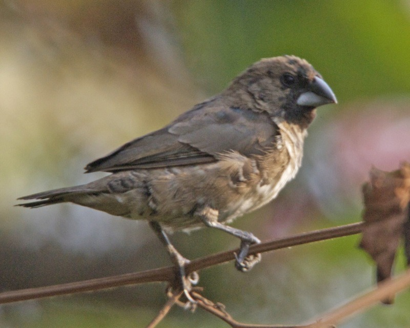 A juvenile Bronze mannikin at Hôtel des Mille Collines (aka Hotel Rwanda), Kigali, Rwanda on the 14th of August, 2009. It is acquiring some adult plumage on the face and scapulars. ChiShona: Zadzasaga Kiswahili: Tongo pofu Xitsonga: Rijajani IsiXhosa: Ingxenge Distribution Distribution (subspecies) 690V0159